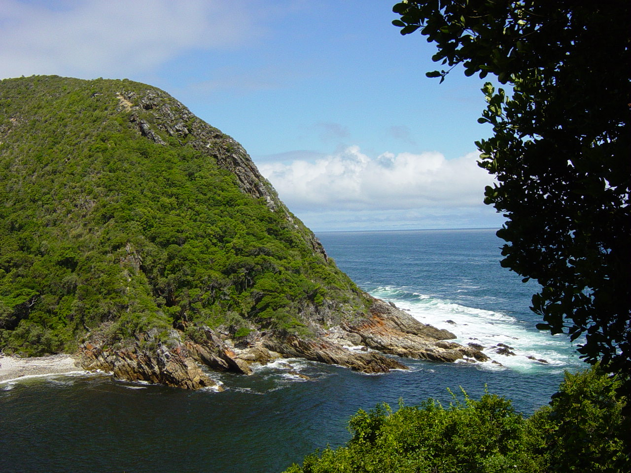 Storms River mouth, Tsitsikamma National Park, South Africa. Own work photograph